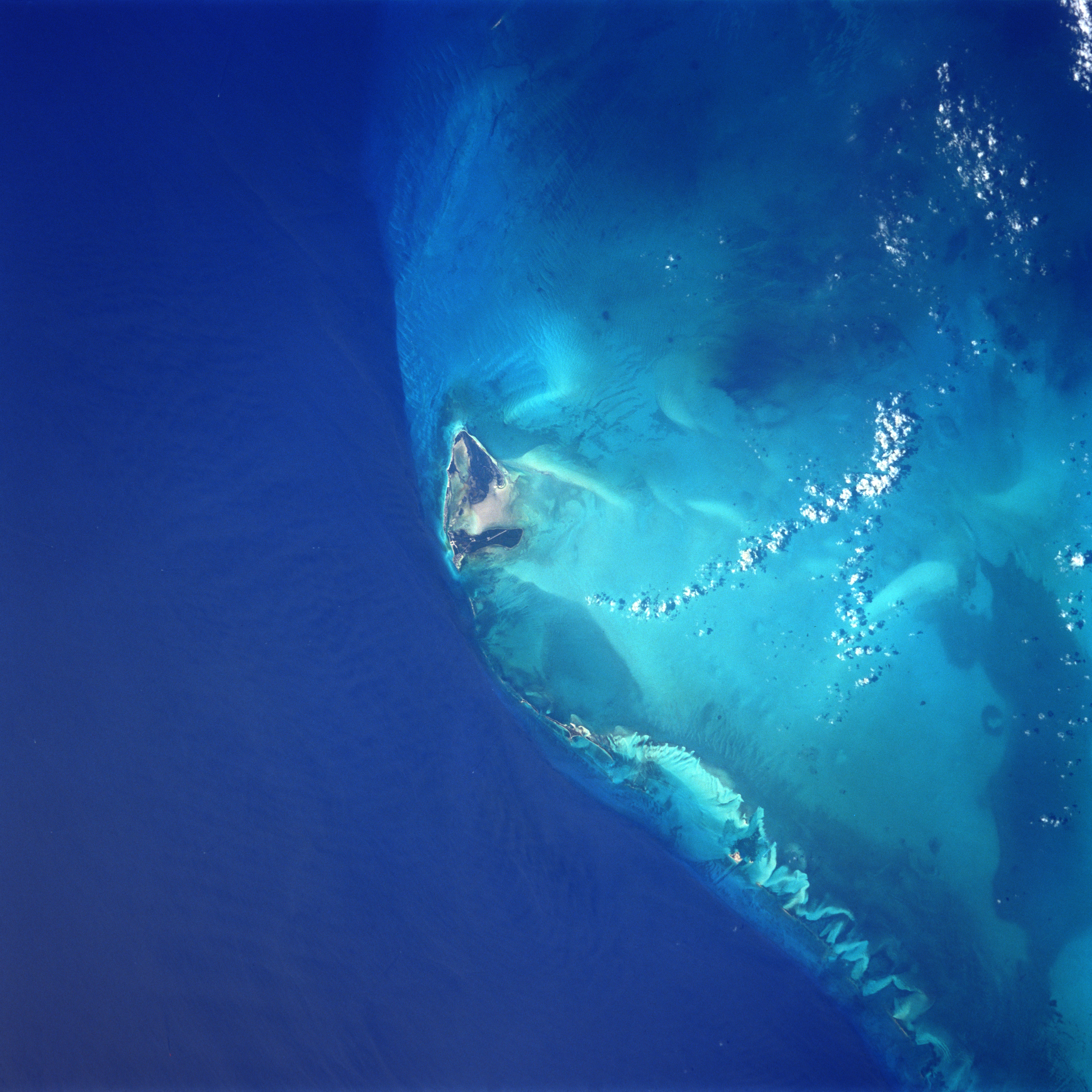 Bimini Island, Bahama Islands - June 1998 image description here